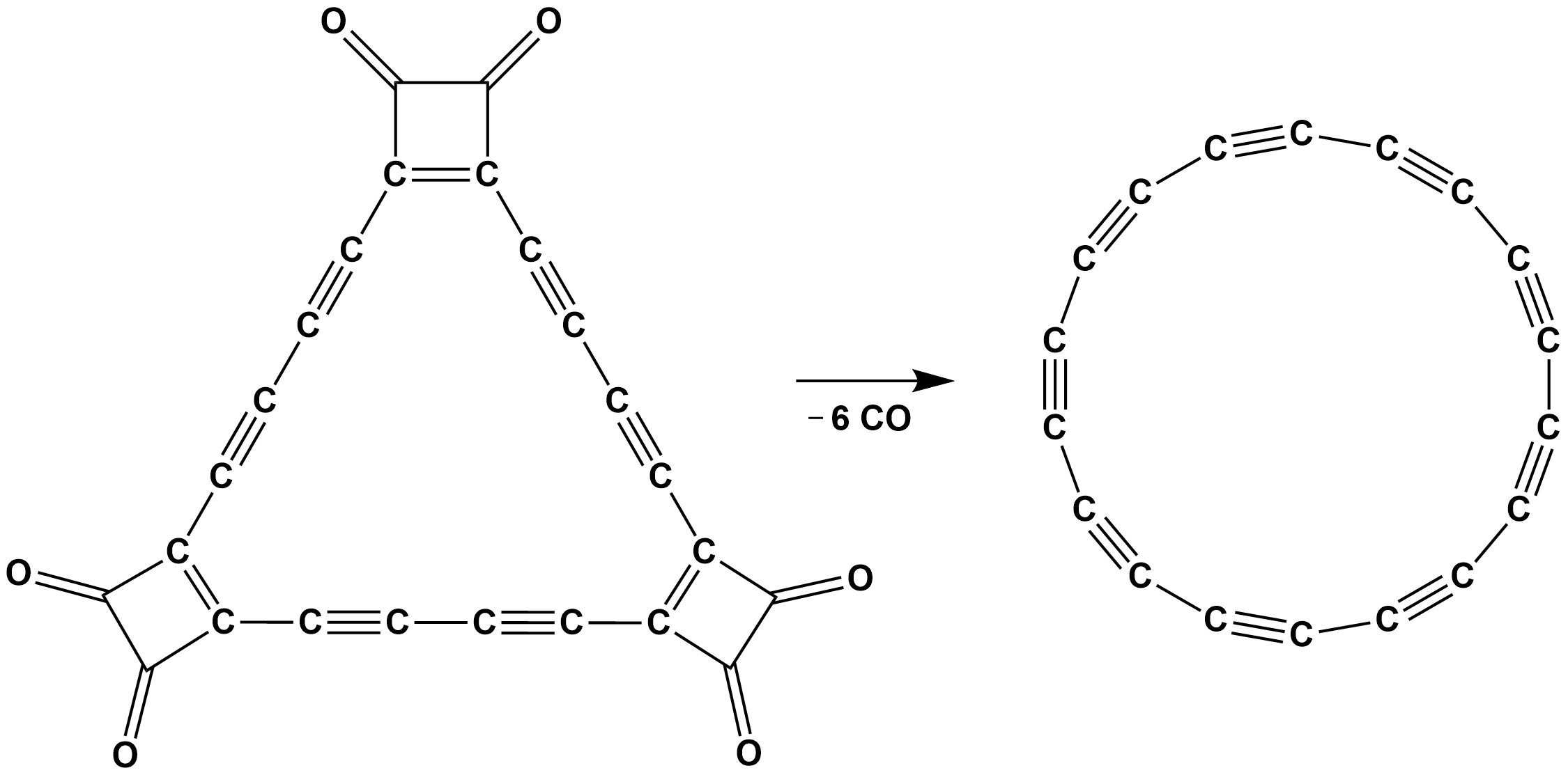 Synthesis of cyclo[18]carbon